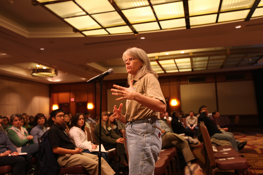 Biologist speaking at the Friday morning Town Hall session, where attendees were welcome to discuss their ideas on how to further landscape conservation. Credit: USFWS